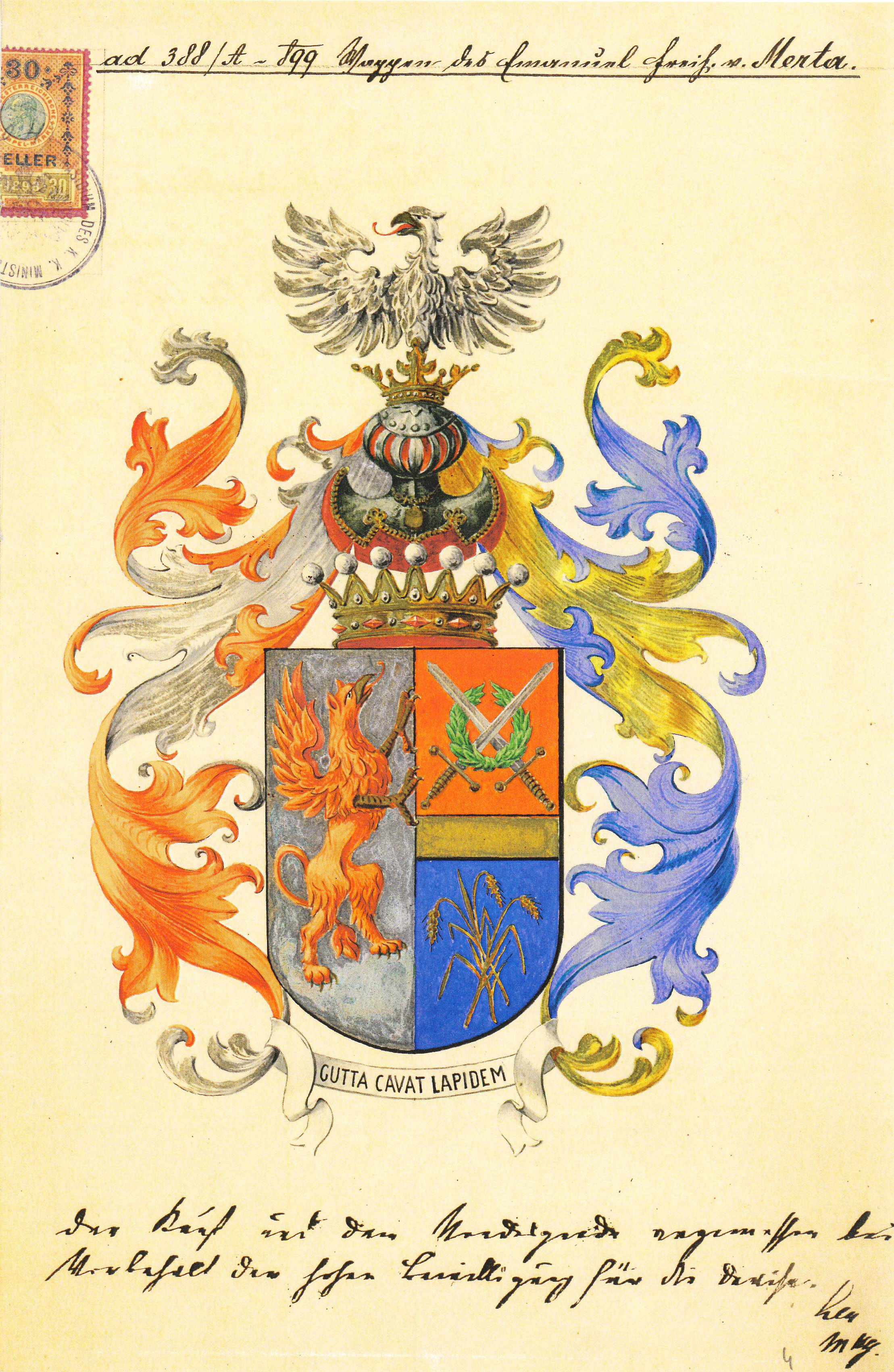 Coat of Arms of barons von Merta